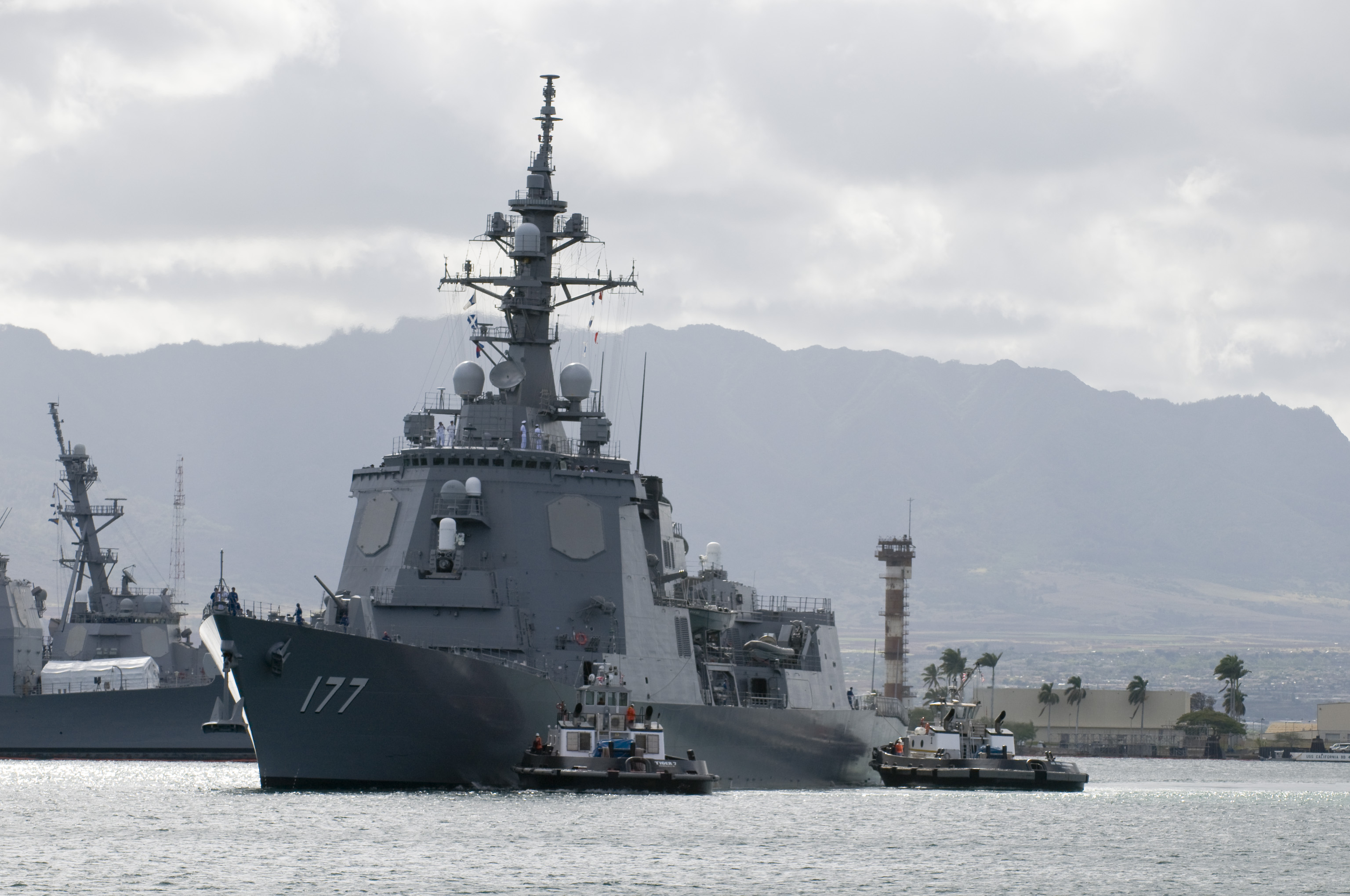 PEARL HARBOR (June 22, 2010) The Japan Maritime Self-Defense Force guided-missile destroyer JS Atago (DDG-177) arrives at Joint Base Pearl Harbor-Hickam for Rim of the Pacific (RIMPAC) 2010. RIMPAC is a biennial, multinational exercise designed to strengthen regional partnerships and improve multinational interoperability. (U.S. Navy photo by Mass Communication Specialist 2nd Class Paul D. Honnick/Released)